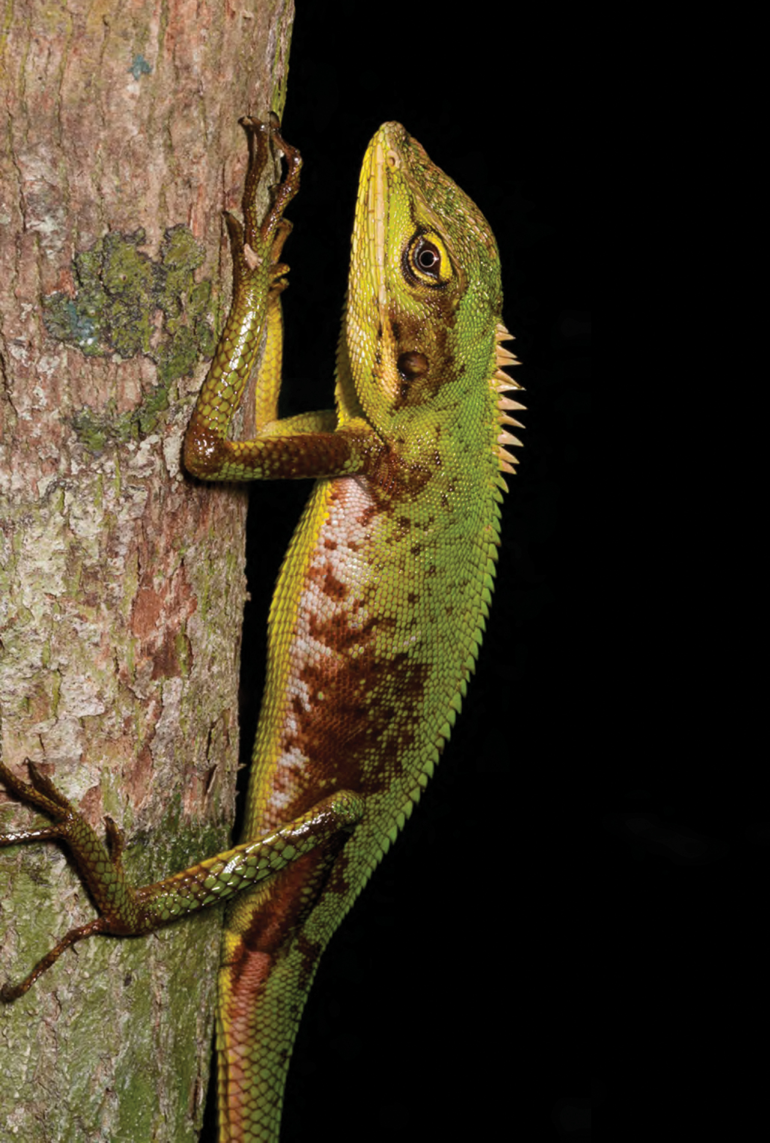 Male Bronchocela marmorata (KU 330106) from low-elevation, Mt. Cagua (just above Barangay Magrafil). Photo: RMB.